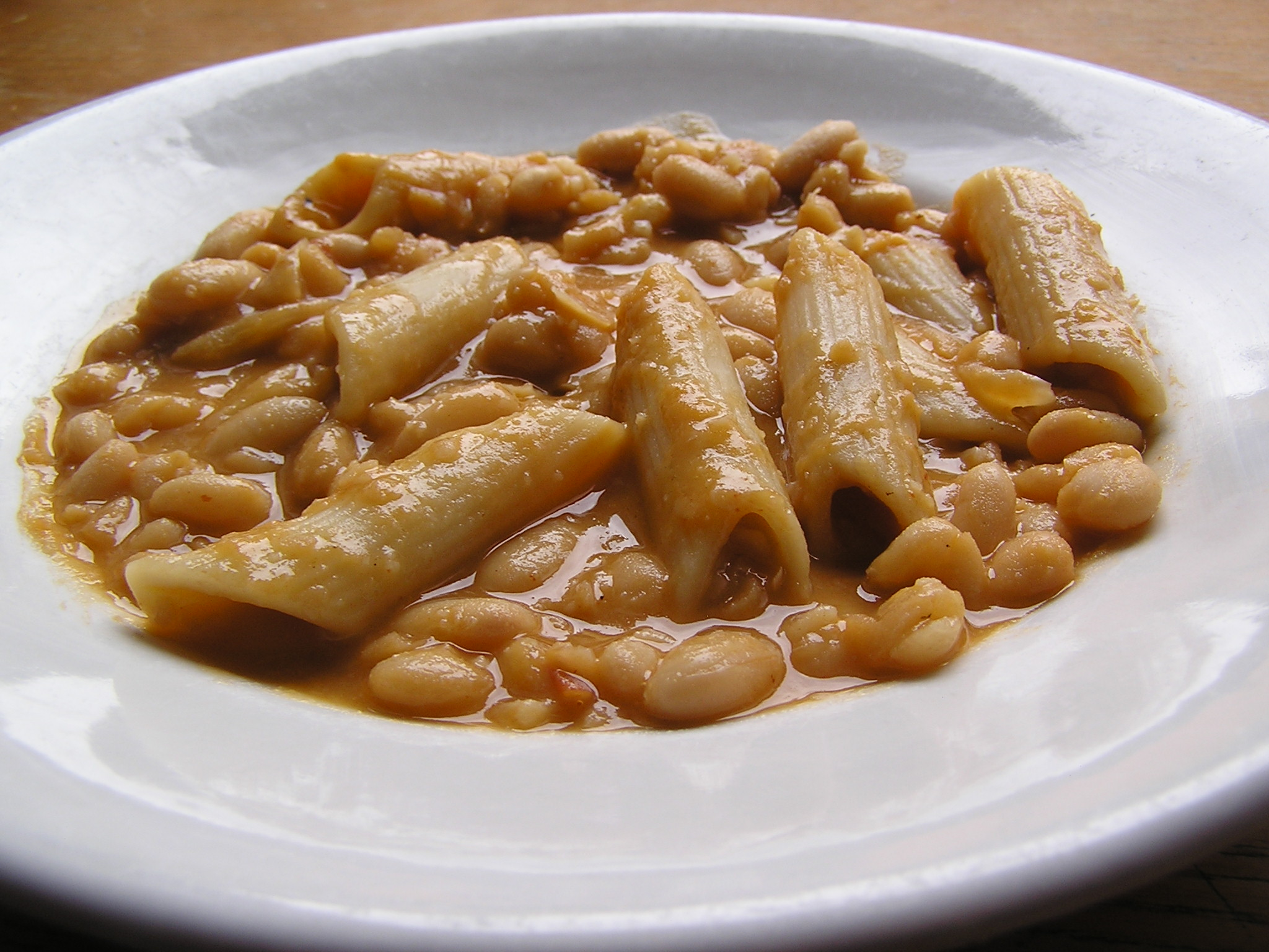 Pasta e fagioli. This version includes penne rigate with cannellini beans, a tomato-based sauce, olive oil and garlic (without animal ingredients).